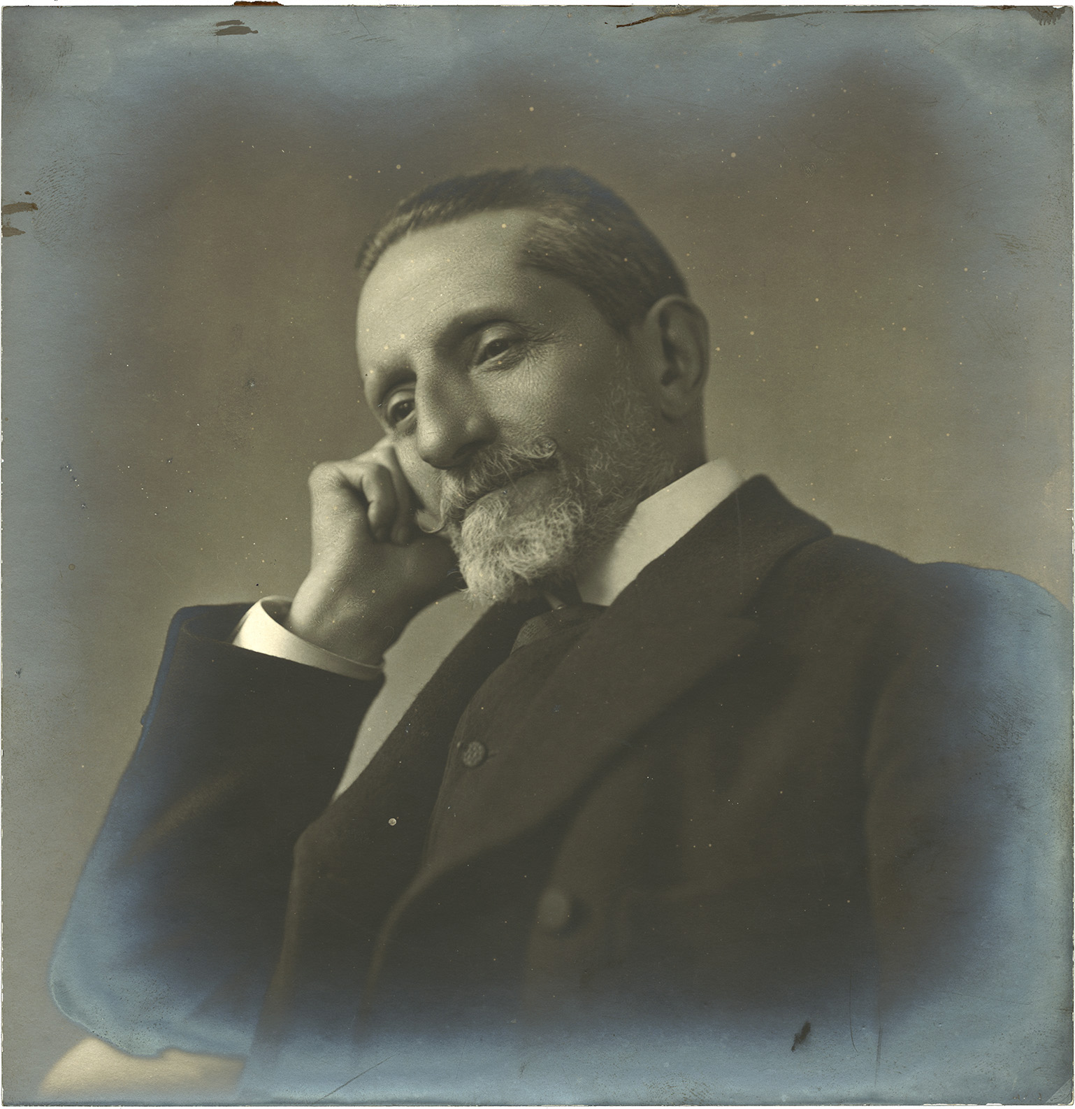 Portrait of Giulio Ricordi, publisher (1840-1912). Photo by unknown, before 1912.